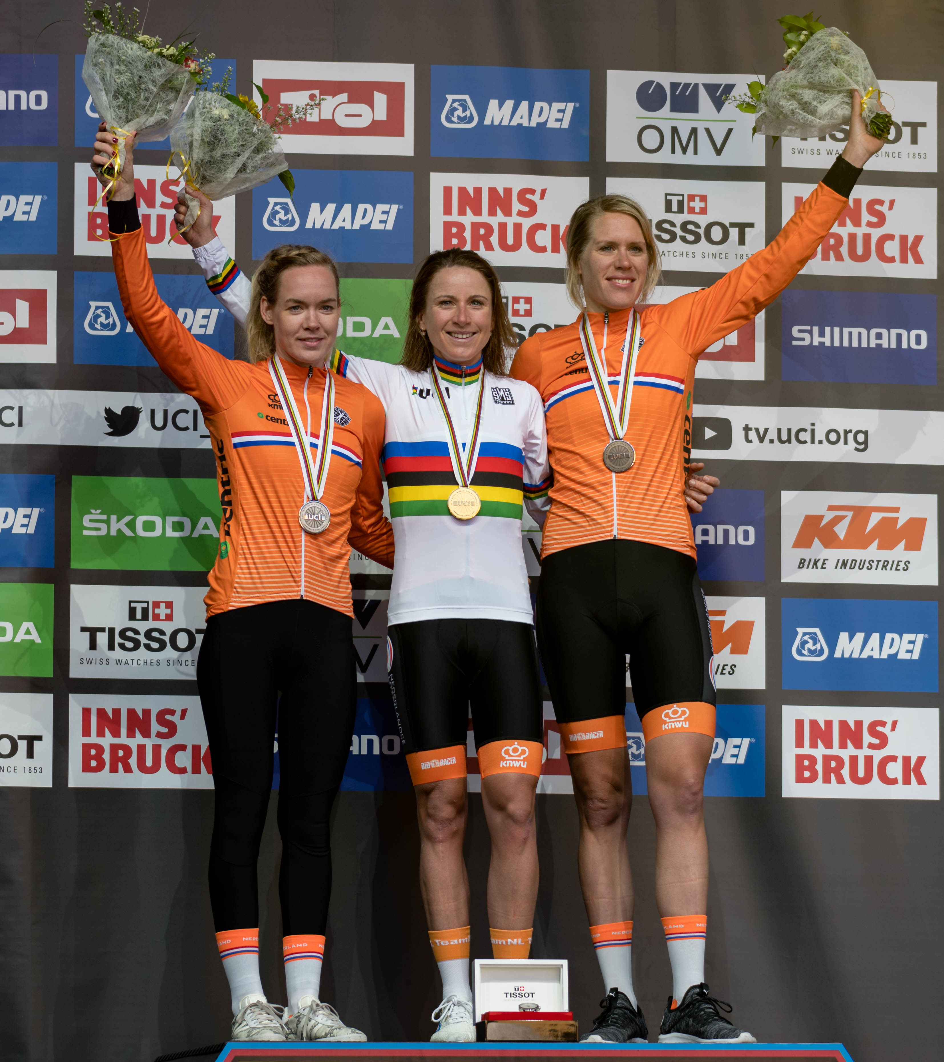 2018 UCI Road World Championships Innsbruck/Tirol Women Elite Individual Time Trial. Picture shows: Award Ceremony with Anna van der Breggen of the Netherlands, Annemiek van Vleuten of the Netherlands and Ellen van Dijk of the Netherlands